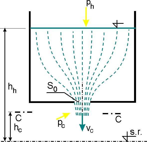 outflow from an orifice - small orifice